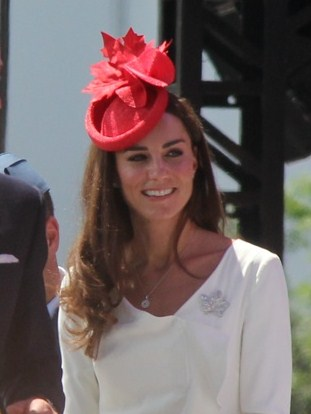 Catherine, Duchess of Cambridge, on her first royal tour, visiting Ottawa for Canada Day celebrations.